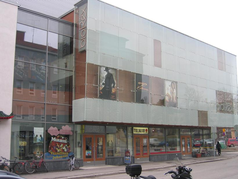 Bio Rex (movie theatre) in Kajaani, Finland. Completed in 2004. Architect: Heikki Lamusuo.